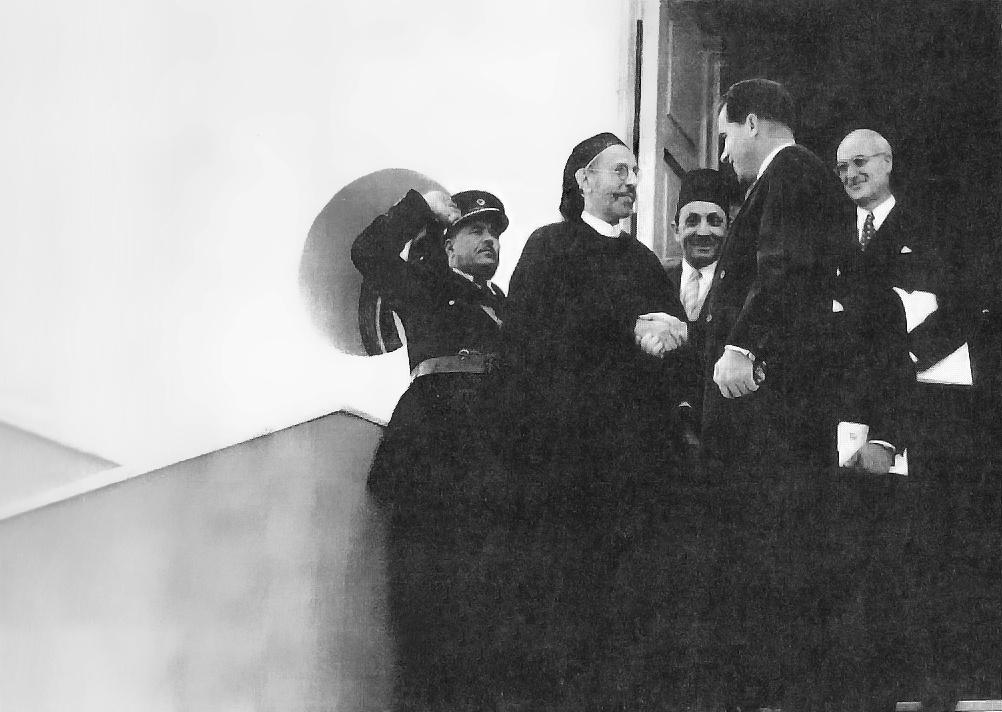 King Idris I of Libya shaking hands with U.S. vice-president Richard Nixon.